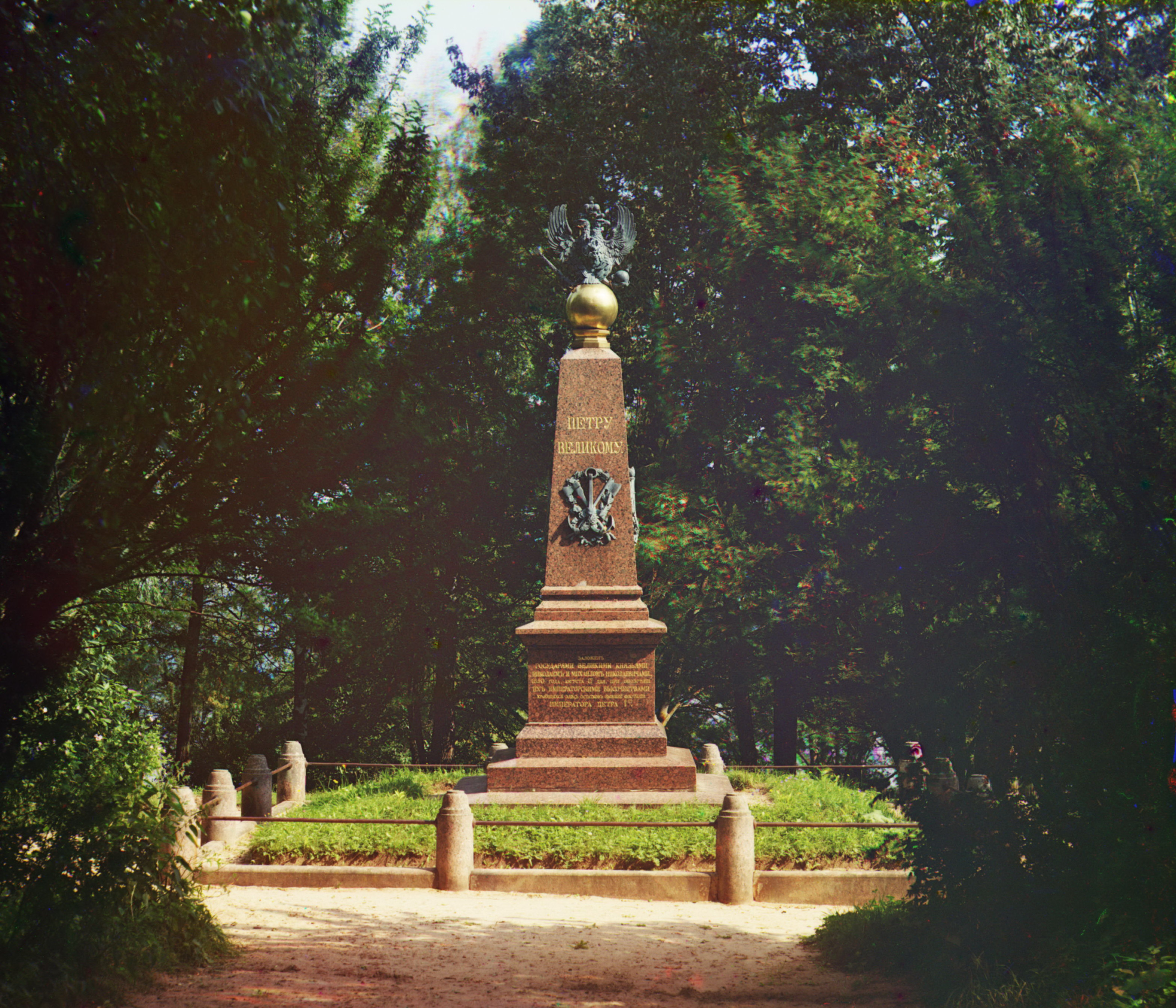 Monument at Pleshcheevo Lake in memory of the establishment here Toy flotilla of Peter I